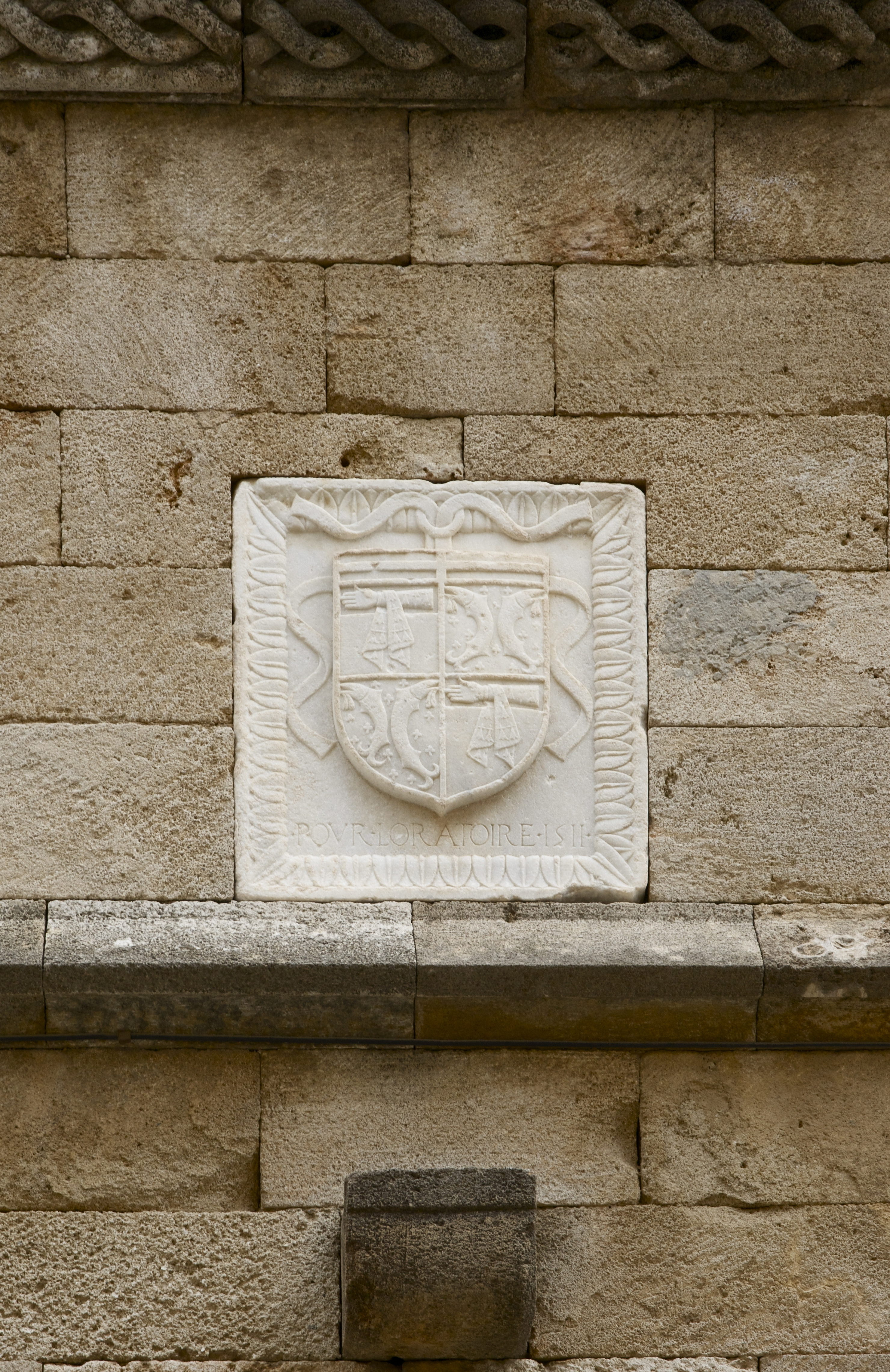 The CoA of Philippe de Villiers de l'Isle-Adam, 44th Grand Master of the Order of the Knights of Saint John of Jerusalem.